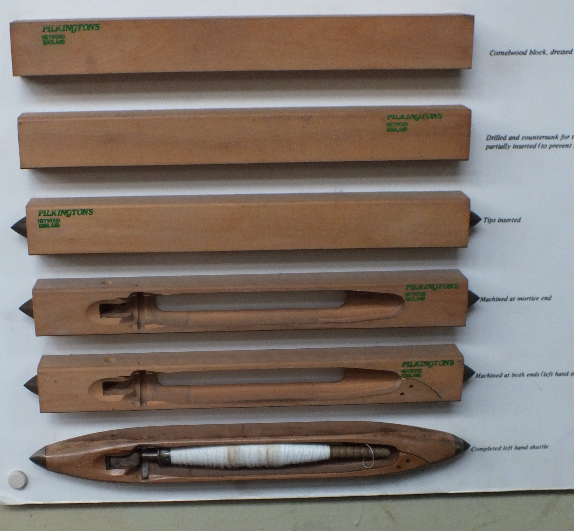 Queen Street Mill in Harle Syke, a suburb to the north-east of Burnley, Lancashire, was built in 1894 for the Queen Street Manufacturing Company. It closed on 12 March 1982 and was mothballed, but was subsequently taken over by Burnley Borough Council and used as a museum. In the 1990s ownership passed to Lancashire Museums. Unique in being the world's only surviving steam-driven weaving shed. Construction of a shuttle- the various stages of constructing a box-wood 'self threading shuttle' with labels in English